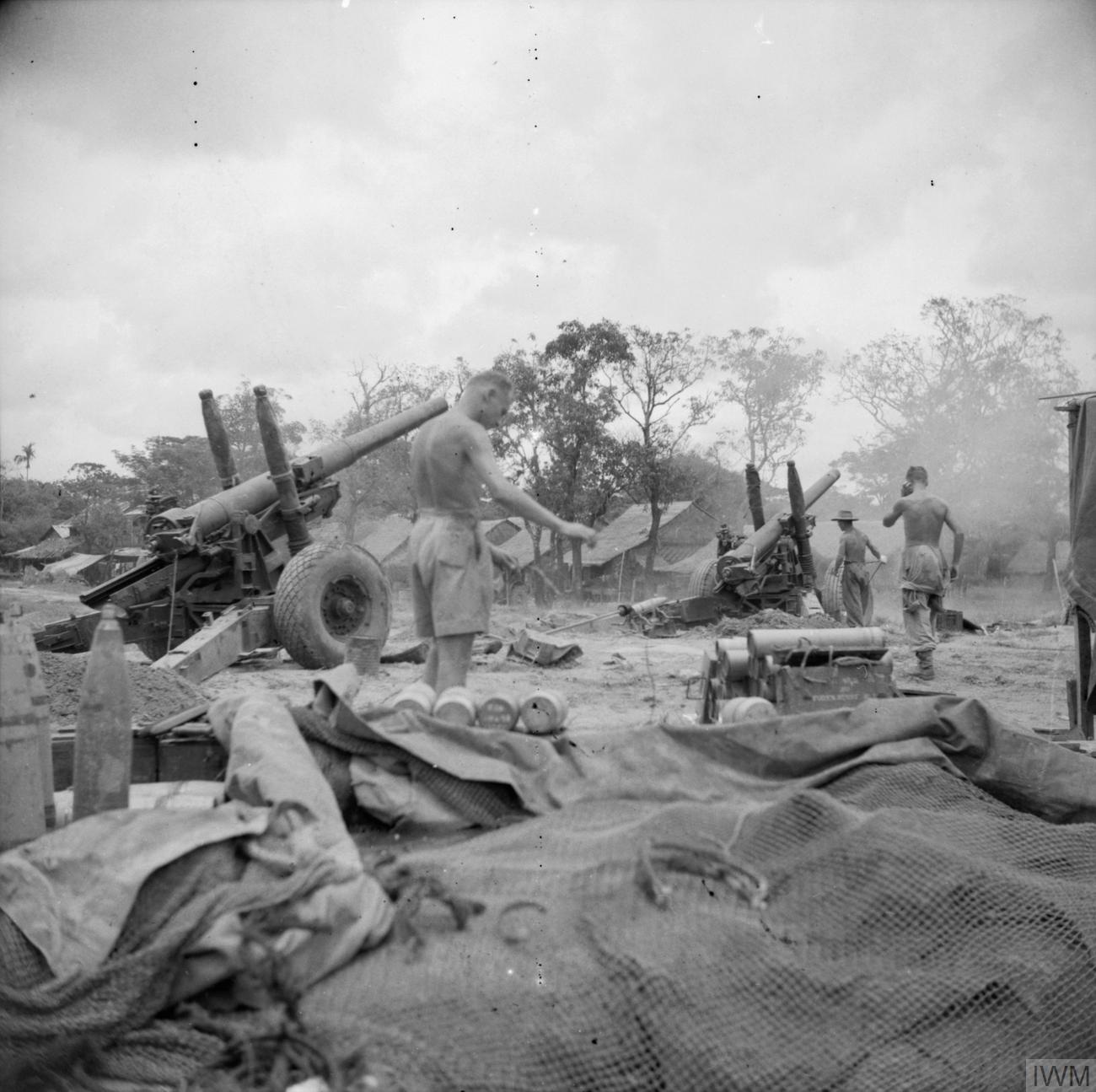 The British Army in Burma 1945 5.5-inch guns of 63rd Medium Battery firing on Satthinagyon, 1 August 1945.